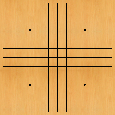 Empty 13x13 Goban